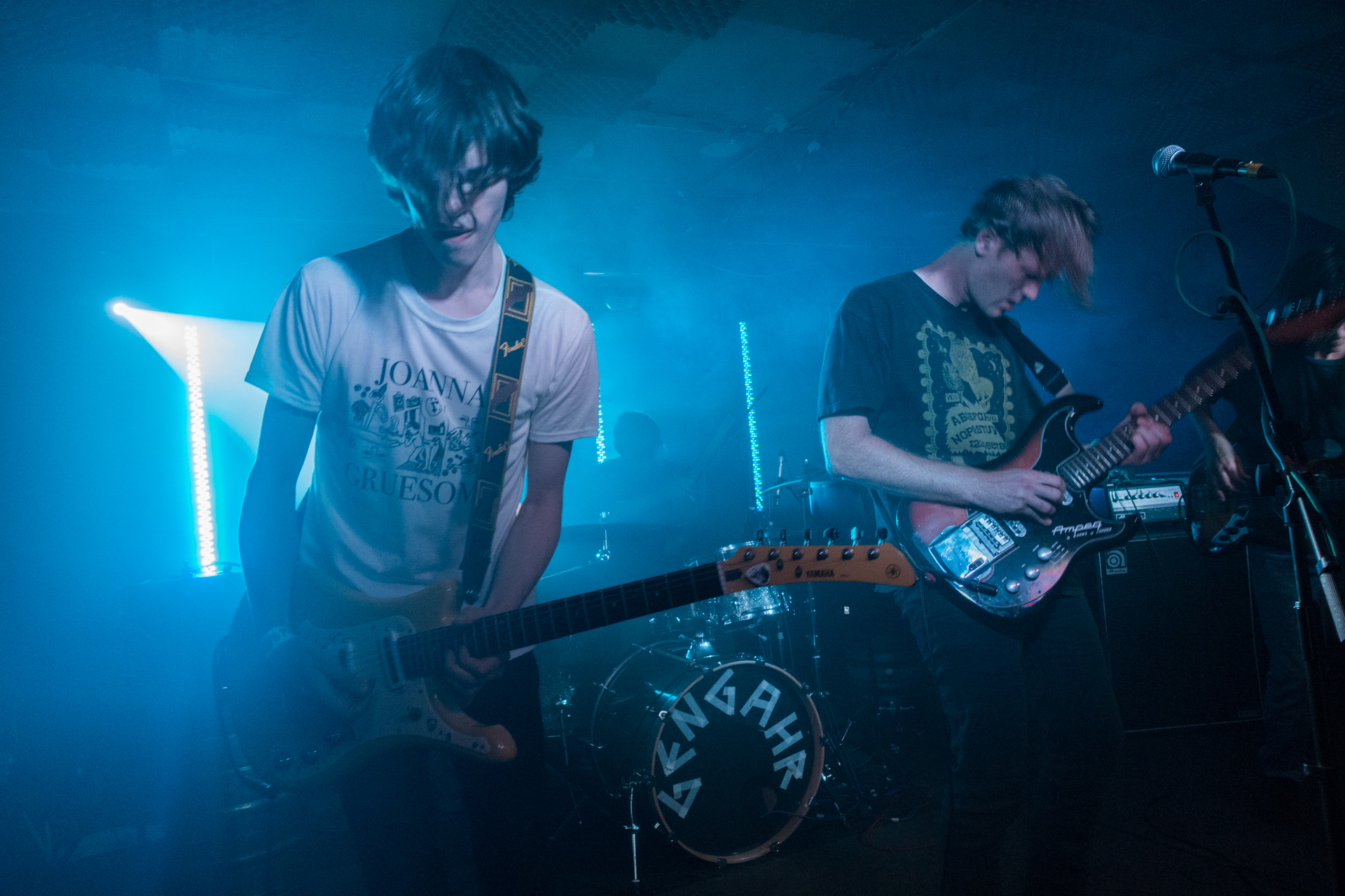 London-based band Gengahr supporting Alvvays.